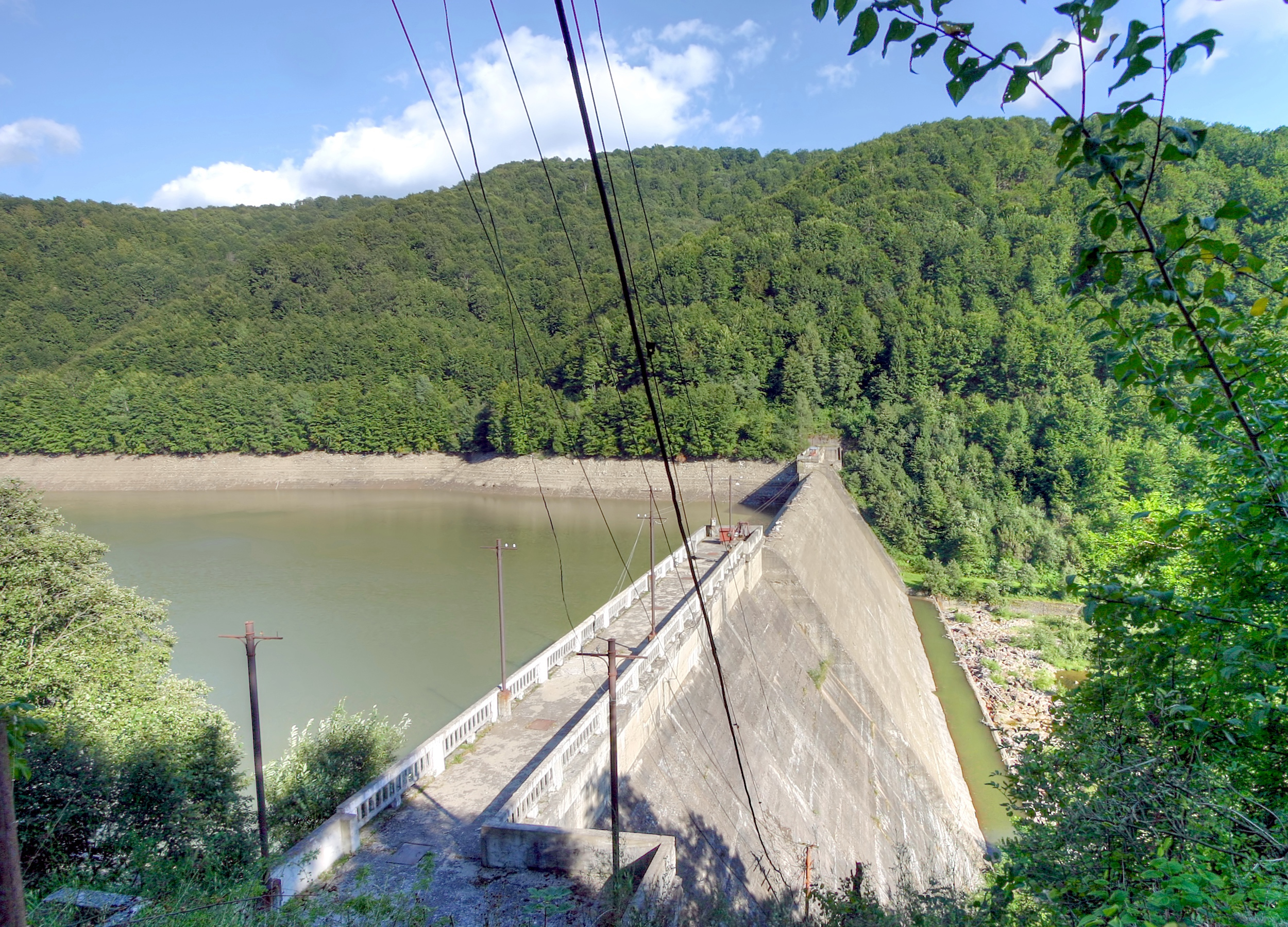 Dam on Tereblya river near Vilschany, Khust Raion, Zakarpattia Oblast in western Ukraine